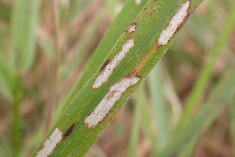 Feeding marks of the phytophagous ladybird Cynegetis impunctata on Phalaris arundinacea